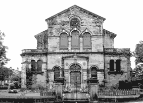 Park Primitive Methodist Church, Calverley, West Yorkshire, England, opened in 1874 and designed by Alfred Hill Thompson.